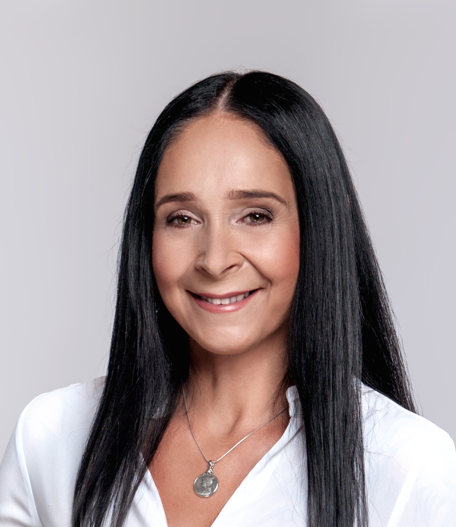 Miloslava Pošvářová